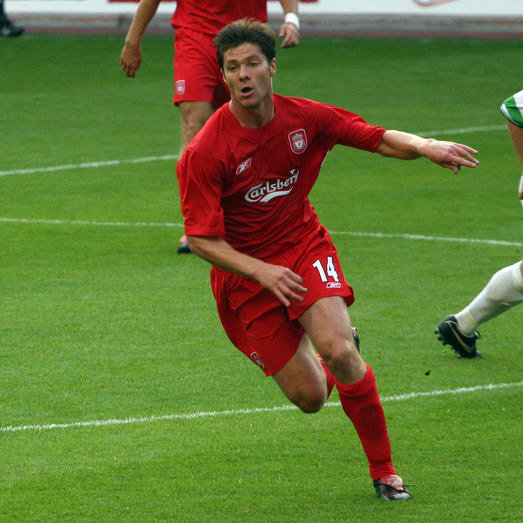 Liverpool footballer Xabi Alonso.